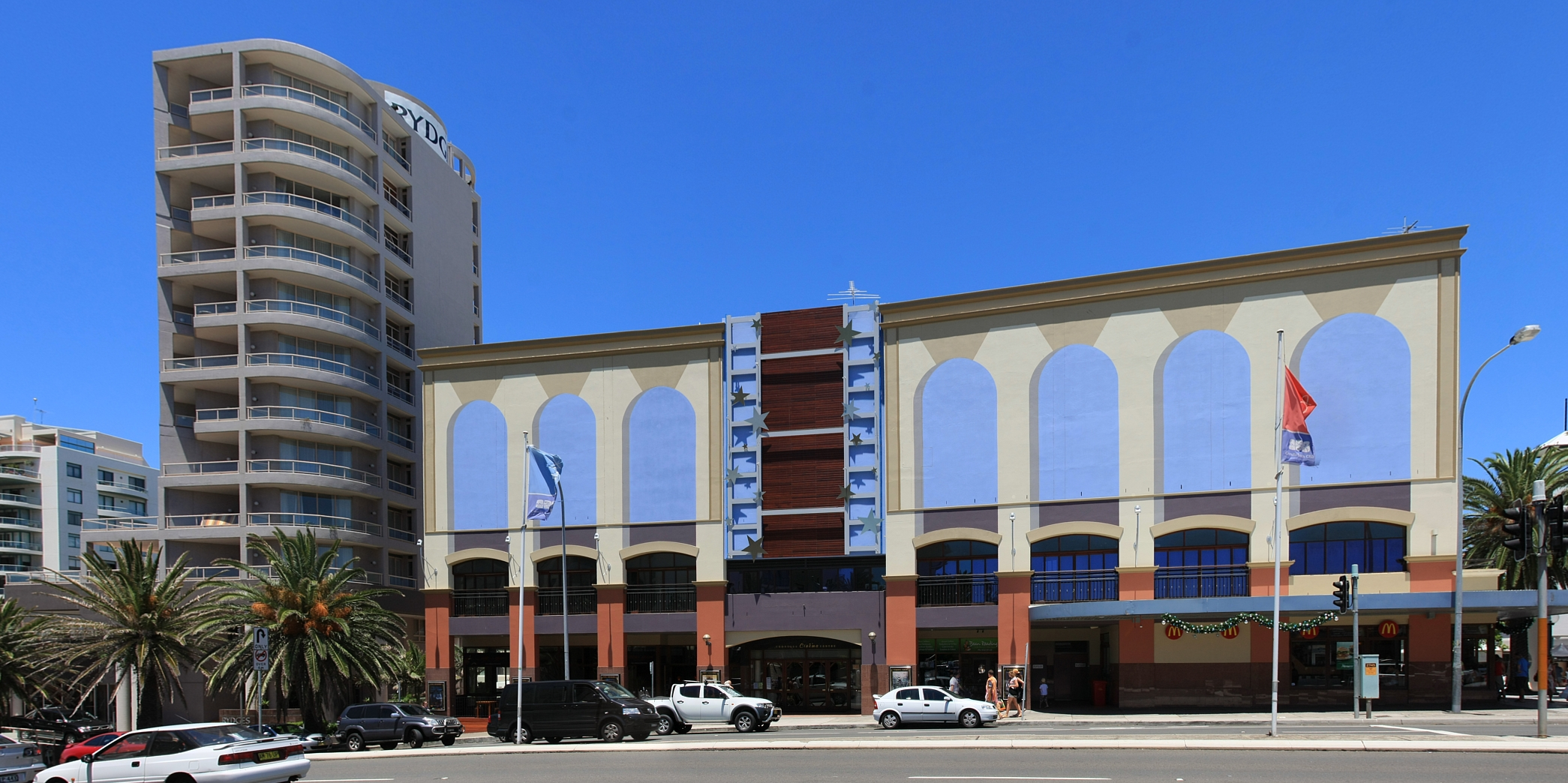 Cronulla, New South Wales